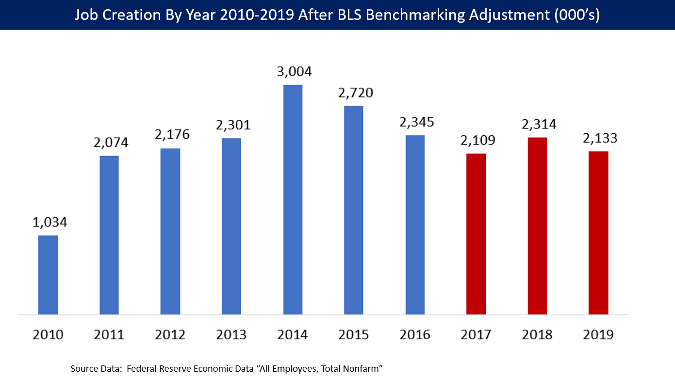 U.S. total nonfarm payroll job creation, monthly average in thousands for 2013 to 2017 (thru November), from the Federal Reserve Economic Data (FRED).